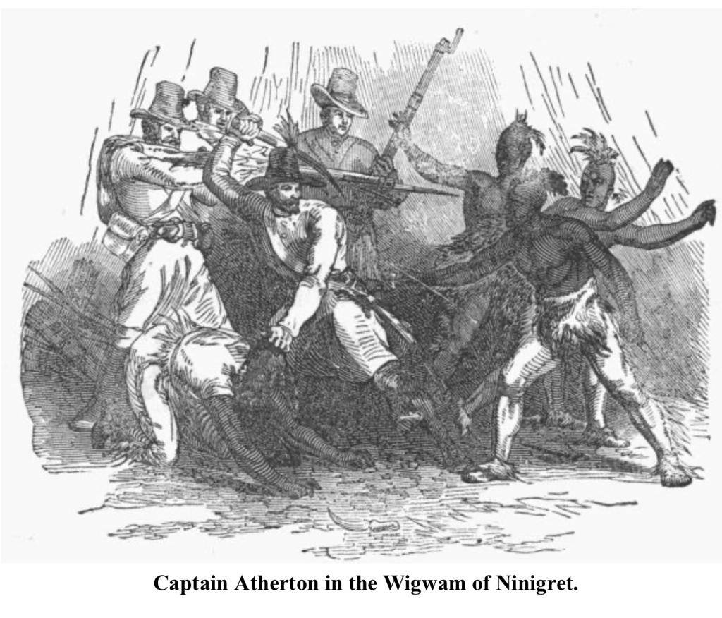 Captain Atherton of Massachusetts Bay Colony in the mid 1600s